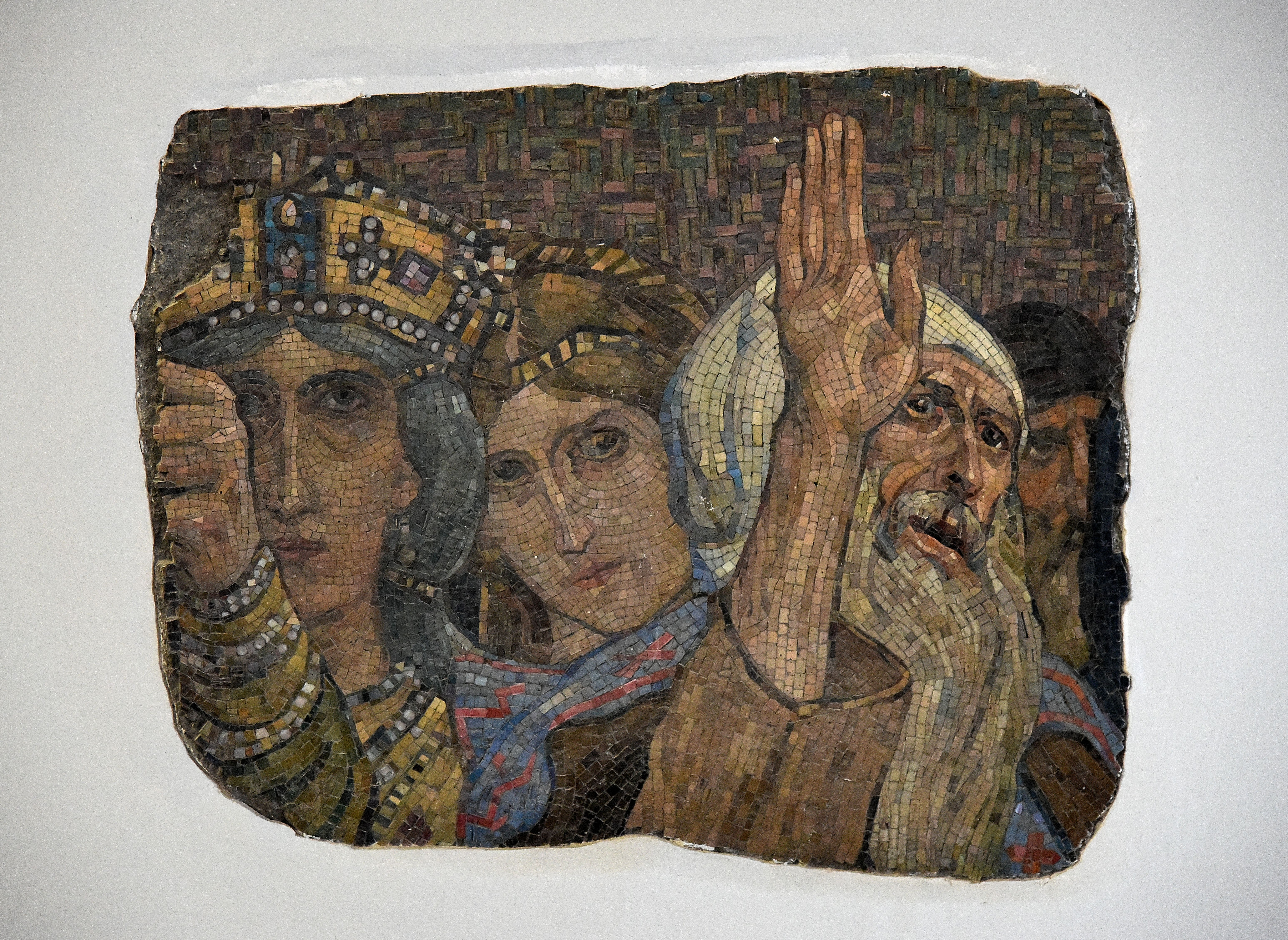 A piece of mosaic from the Alexander Nevsky Orthodox Cathedral in the bulding of the Faculty of Architecture, Warsaw University of Technology